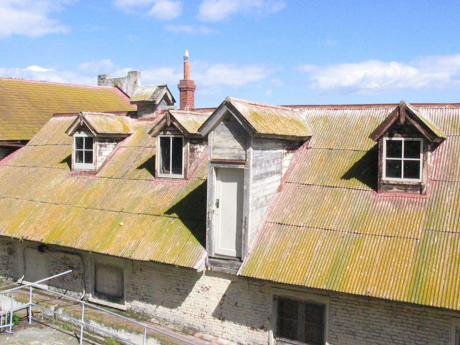 I think I took this at Alcatraz